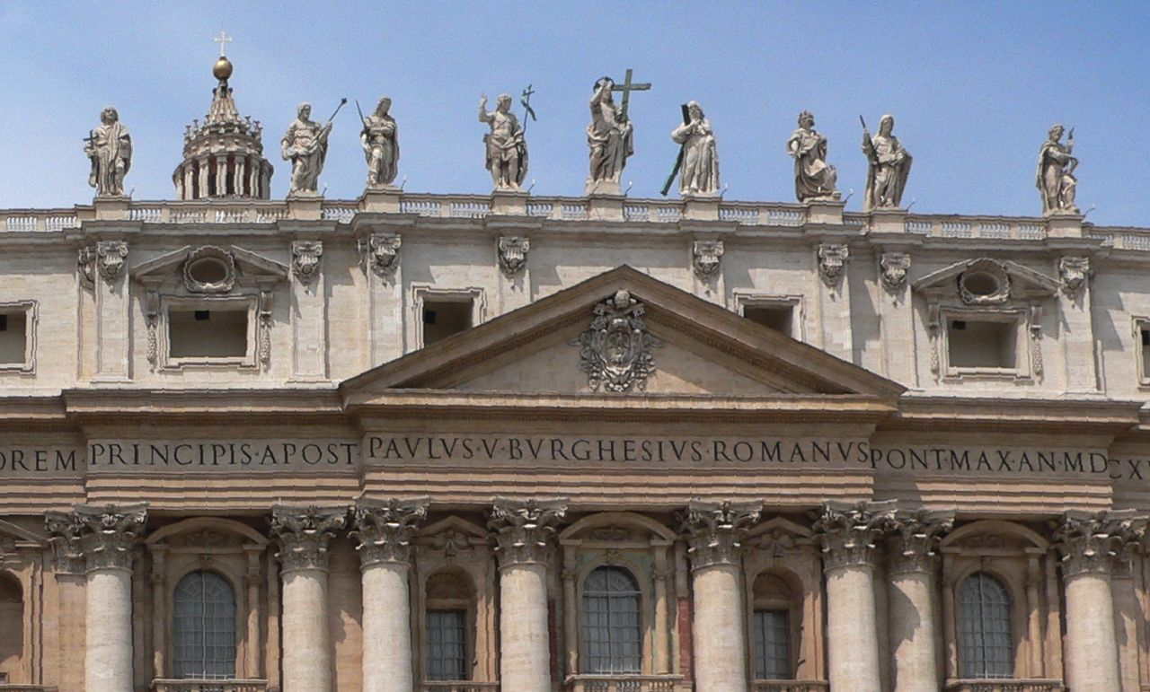 On the entablature is a Latin inscription in enormous letters: "In honorem Principis Apostoli Paolus V Burghesius Romanus Pont. Max anno MDCXII - Pont. VII" (in honor of the Prince of the Apostles Paul V Borghese, Supreme Roman Pontiff, in the year 1612, the 7th year of his pontificate).